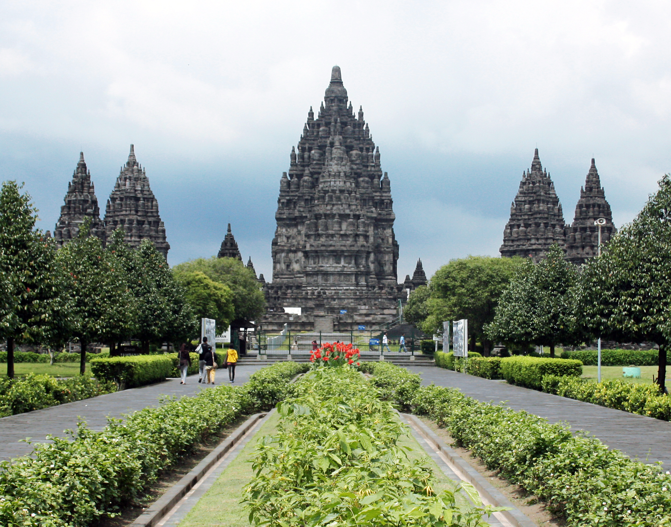 The 9th century Hindu Trimurti temple Prambanan, located on the border between Yogyakarta and Central Java province. The three largest temple is dedicated to Shiva in the centre, Brahma on the left, and Vishnu on the right. On the front of each temples are the temples of vahanas (vehicle of gods).